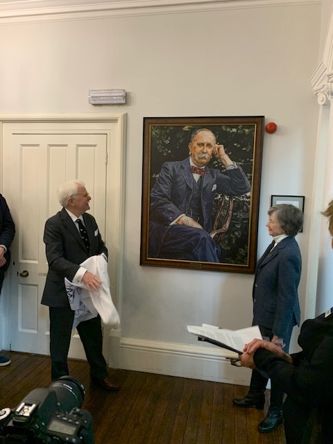 Charles S. Bryan: Unveiling of portrait of Sir William Osler, Oxford 2020. The 100 year anniversary of Sir William Osler's death